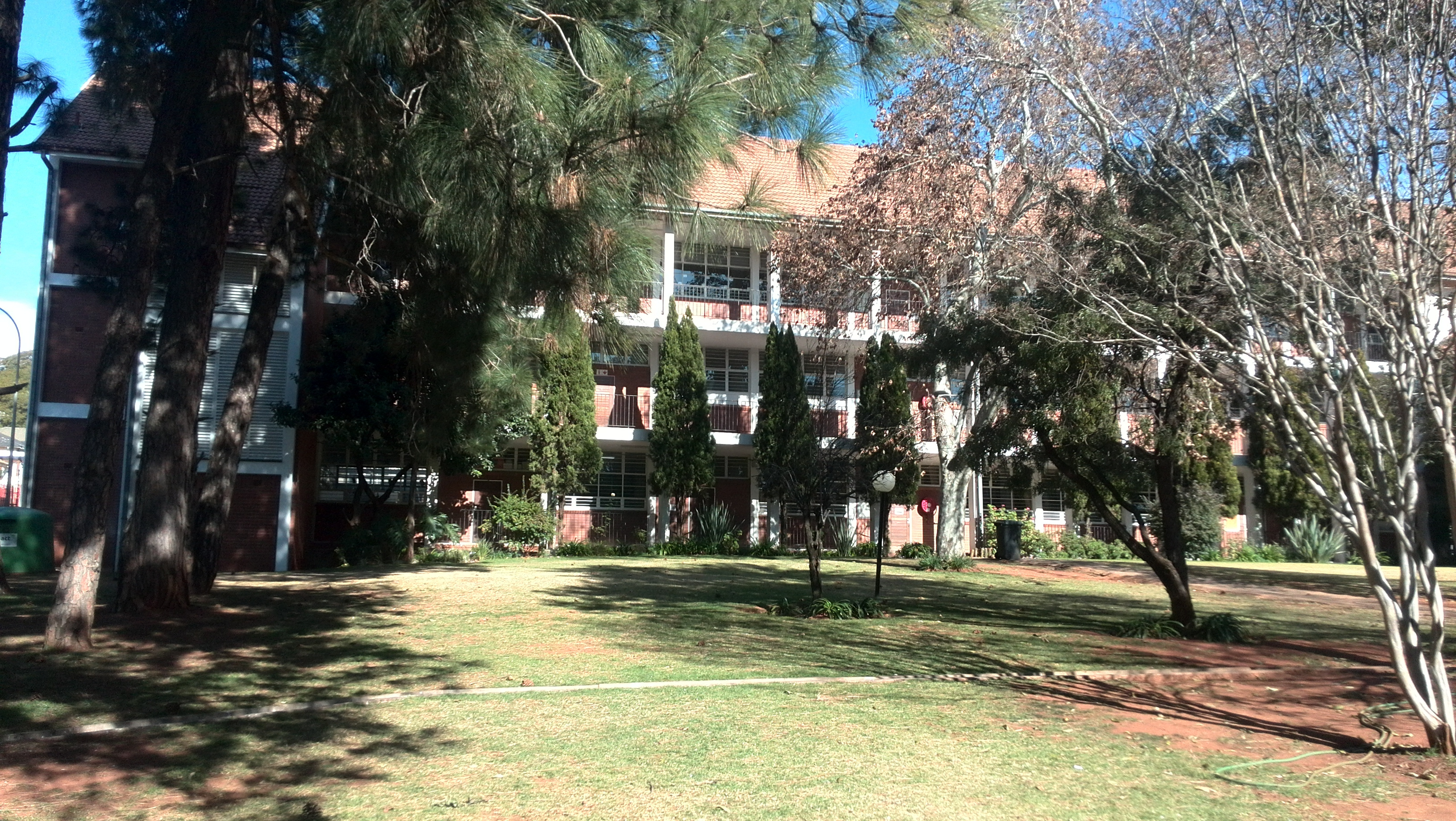 New addition to Jeppe Girls